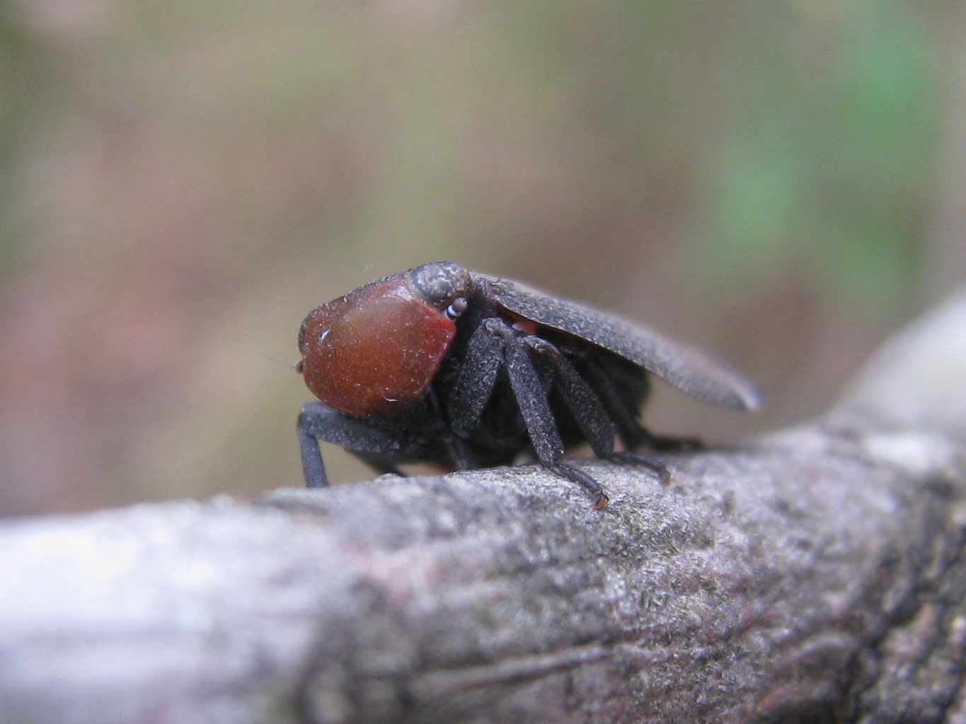 Planthopper, probably Hackerobrachys viridiventris, a species of Eurybrachidae, Platybrachinae. Paruna Reserve, Como NSW Australia, January 2010. See NSW DPI key to Eurybrachid planthoppers, and these photos of Hackerobrachys viridiventris.